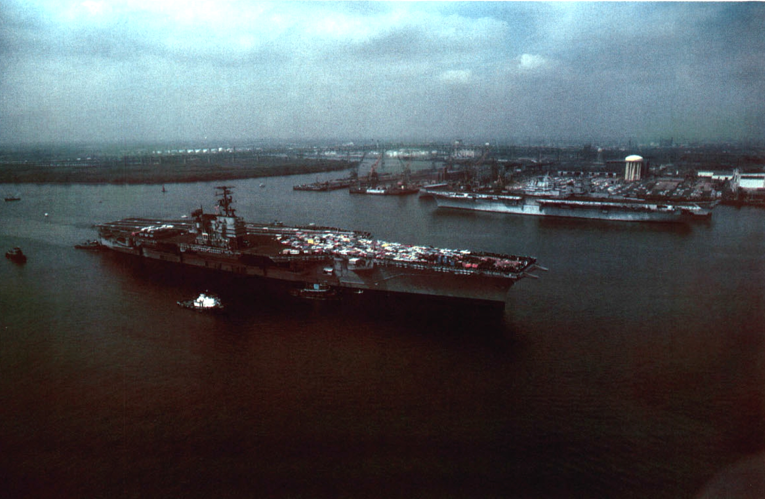 The U.S. Navy aircraft carrier USS Saratoga (CV-60) arives at the Philadelphia Naval Shipyard, Pennsylvania (USA), circa 1 October 1980. On 28 September 1980, only one month after her return from deployment, Saratoga departed Naval Station Mayport, Florida (USA), and headed north to Philadelphia where she underwent the most extensive industrial overhaul ever performed on any U.S. Navy ship. Saratoga was the first ship to go through the Service Life Extension Program (SLEP) overhaul that would last 28 months. She conducted sea trials on 16 October 1982 and several problems were soon found, including improper welding of boiler tubes, and she was inoperative for several months. Saratoga left Philadelphia 2 February 1983 and deployed again in April 1984. In the background is the decommissioned aircraft carrier USS Shangri-La (CVS-38).